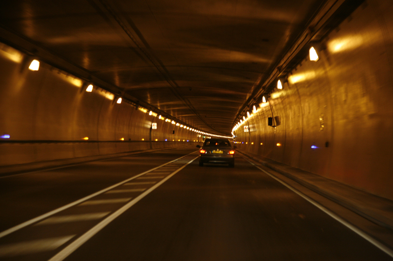 Somport tunnel in the Pyrenees between Spain and France